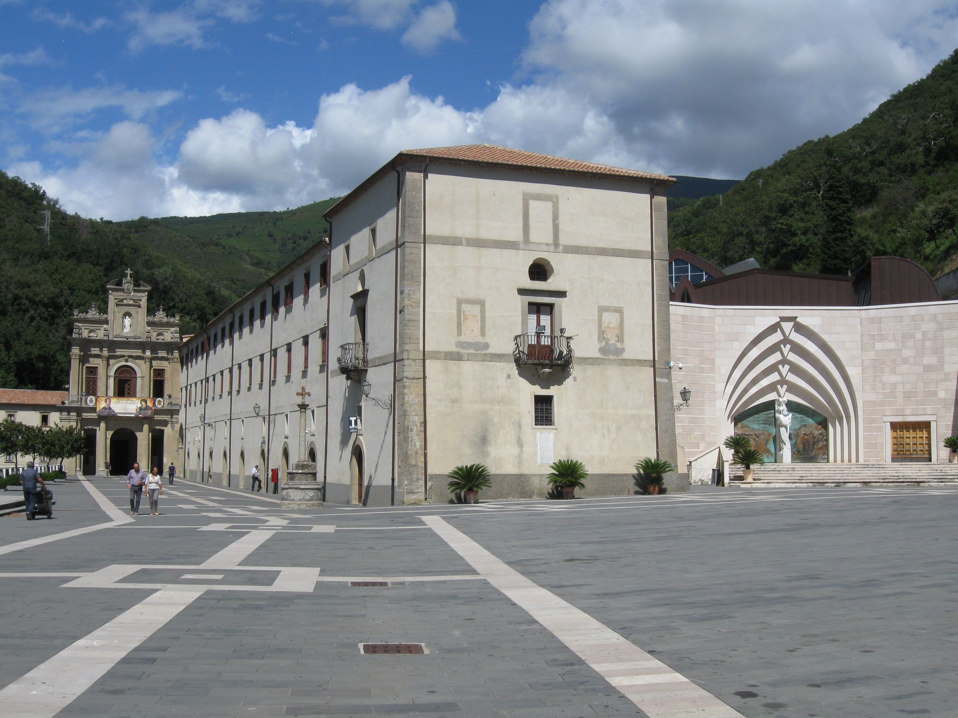 Sanctuary of St. Francis of Paola in Paola (Calabria, Italy)